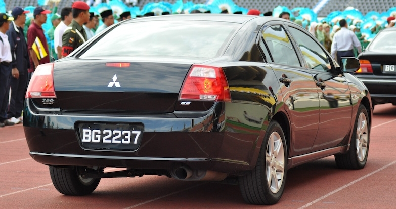 Mitsubishi 380 in Bandar Seri Begawan, Brunei.